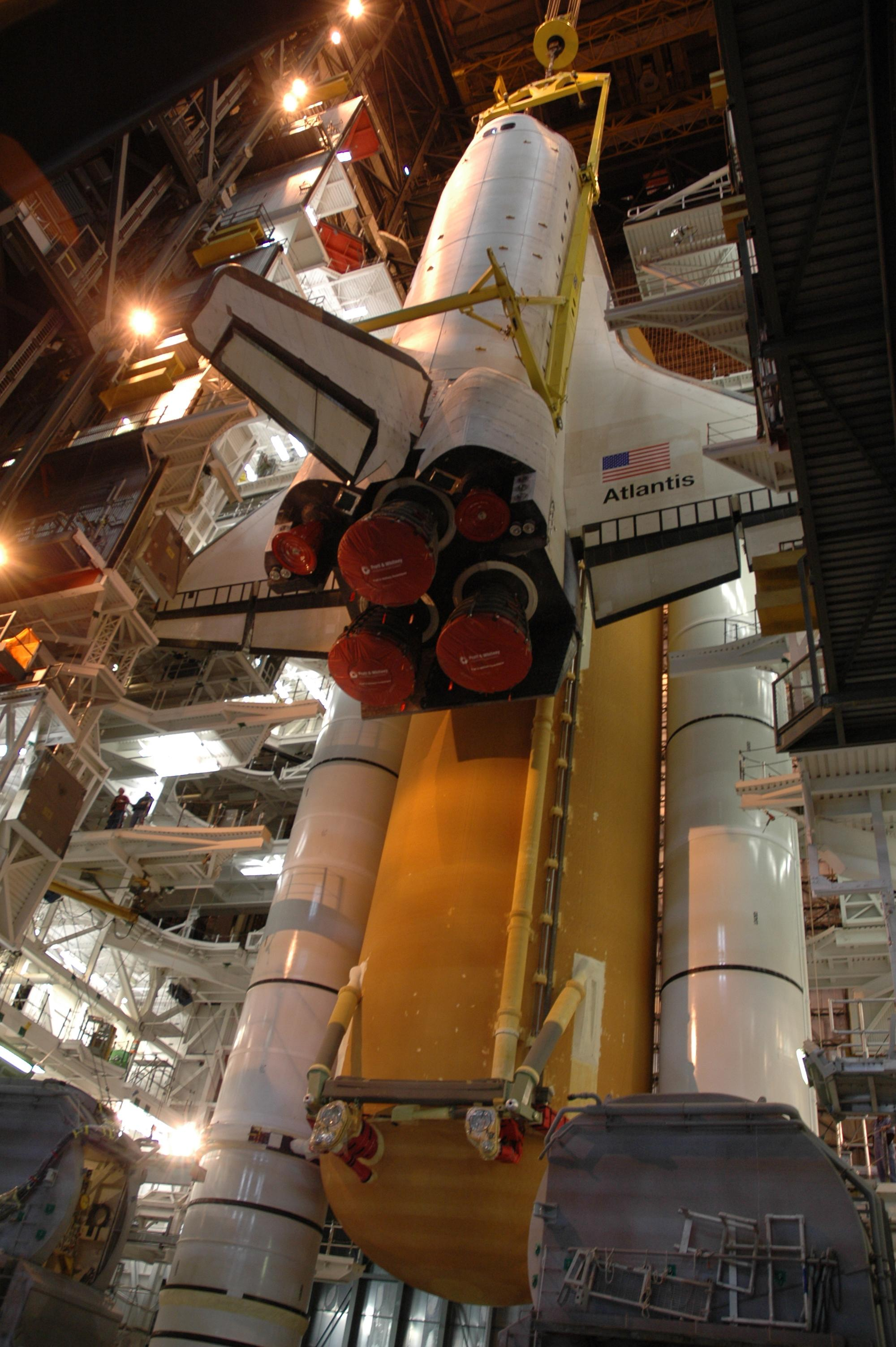 Kennedy Space Centre, Florida - Space Shuttle Atlantis, is mated to the rest of the STS-117 mission stack in preparation for rollout to launch pad 39A on 14 February 2007.